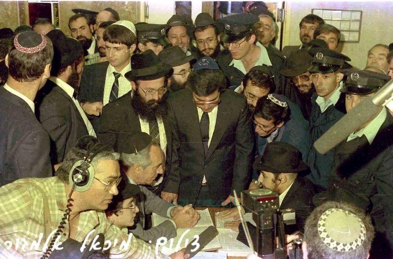 Shimon Peres visit in Kfar Habad, People of Israel